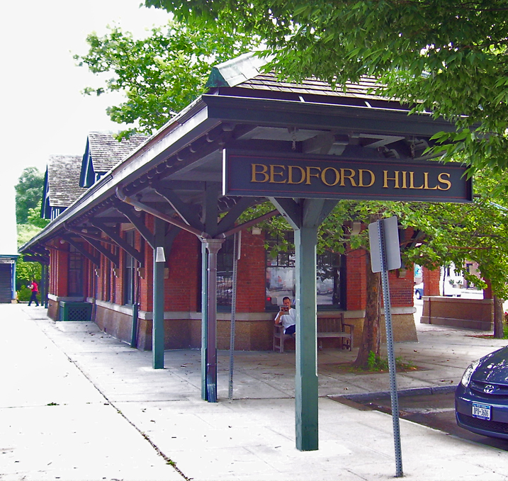 Photographed by Daniel Case 2006-07-10